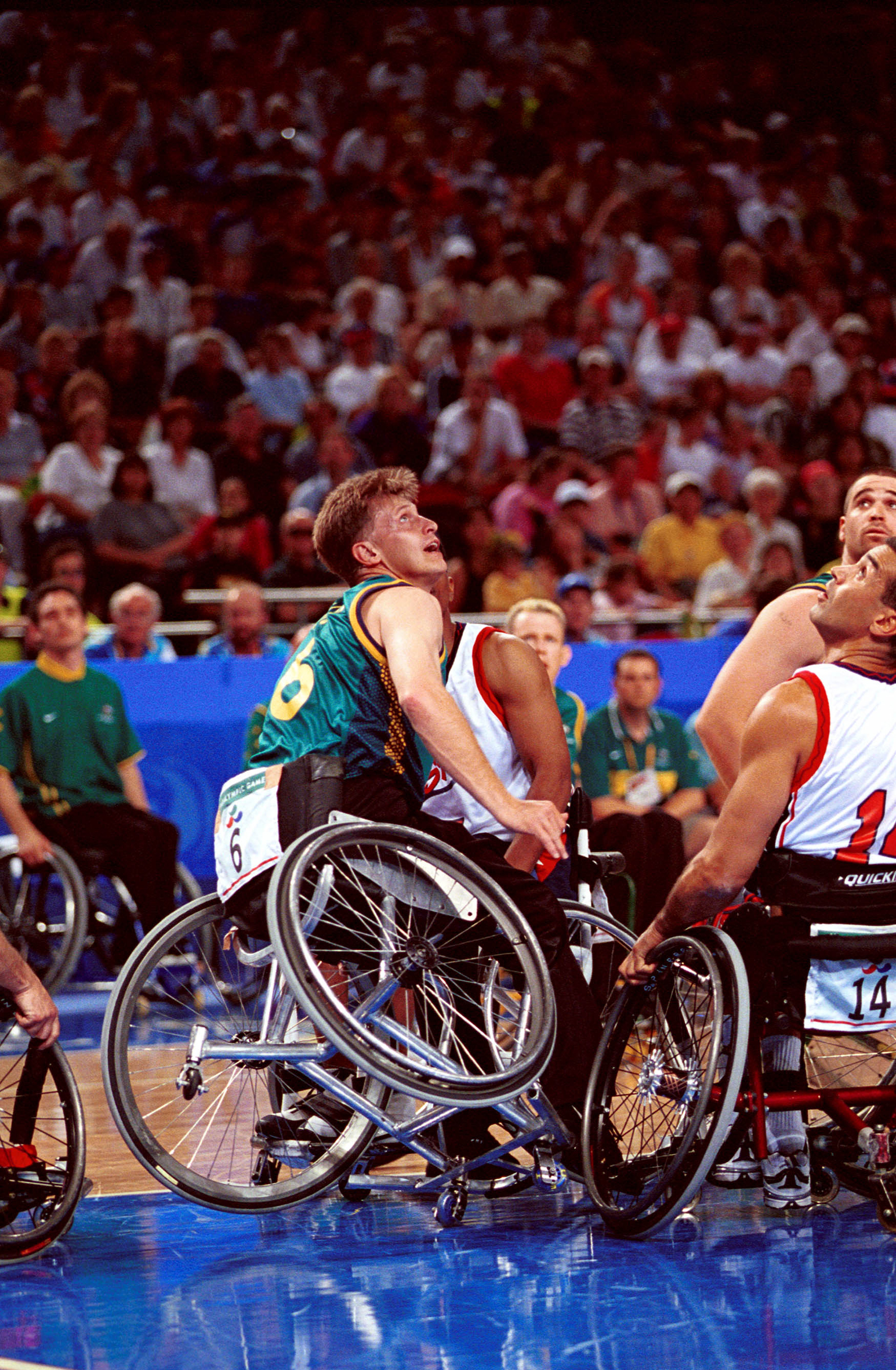 Australian wheelchair basketballer David Gould's wheelchair lifts off the ground during 2000 Sydney Paralympic Games match